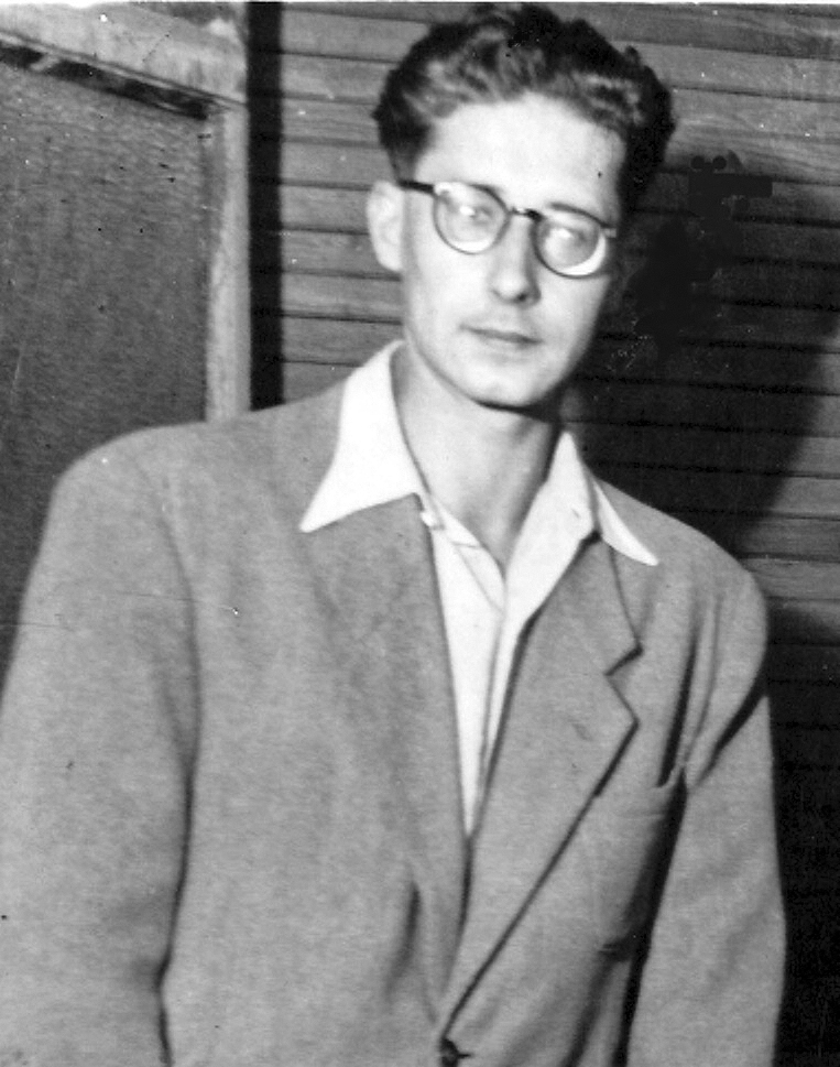 French Author Pierre Gamarra, Toulouse, 1945. Newspaper The South-West Patriot (after Toulouse's Liberation)